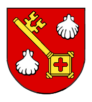 Coat of Arms of Bräunisheim, part of Amstetten